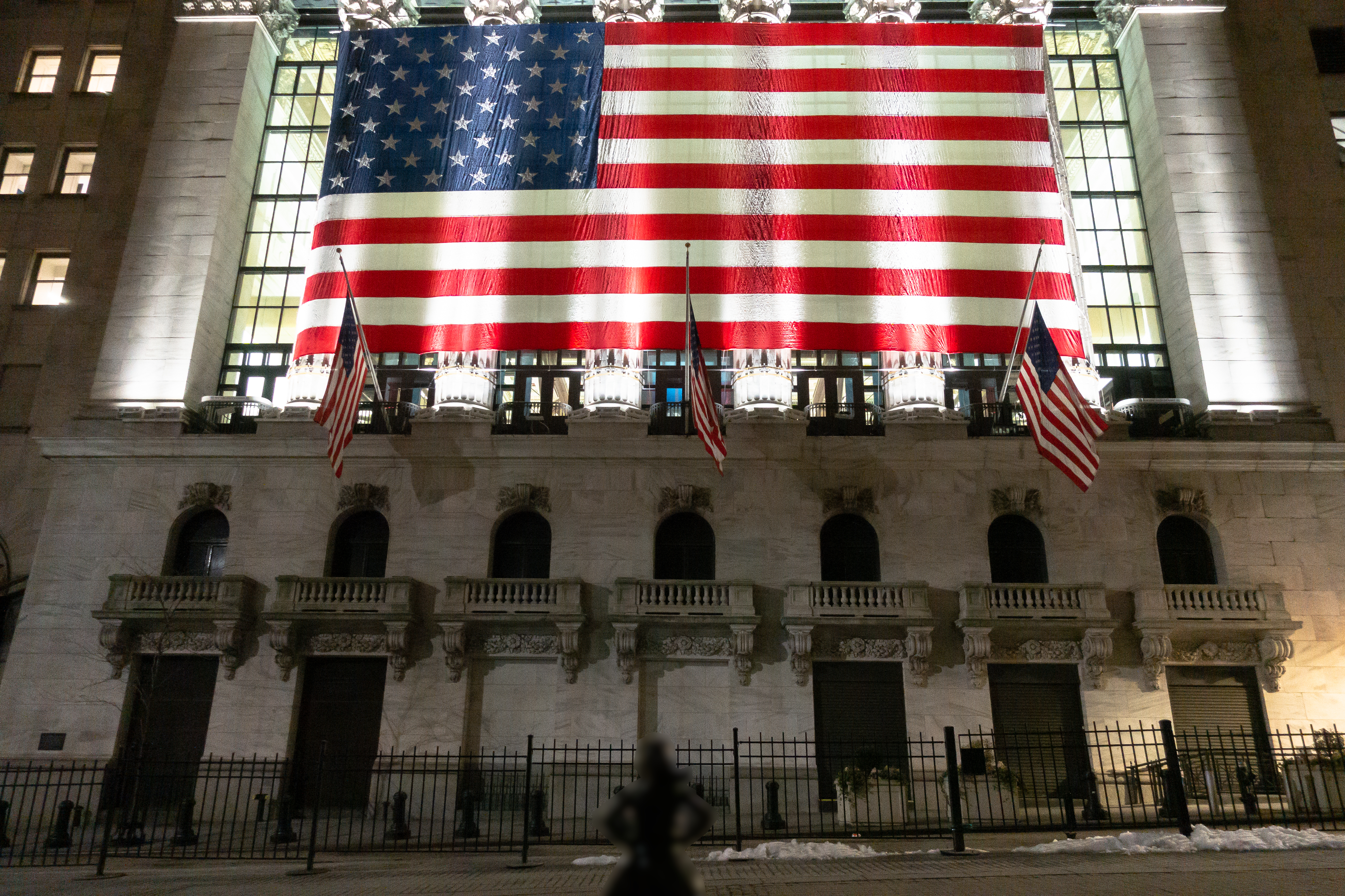 I think the fearless girl may need to think bigger, taking on the flag-washing of structural inequity across multiple dimensions of oppression.